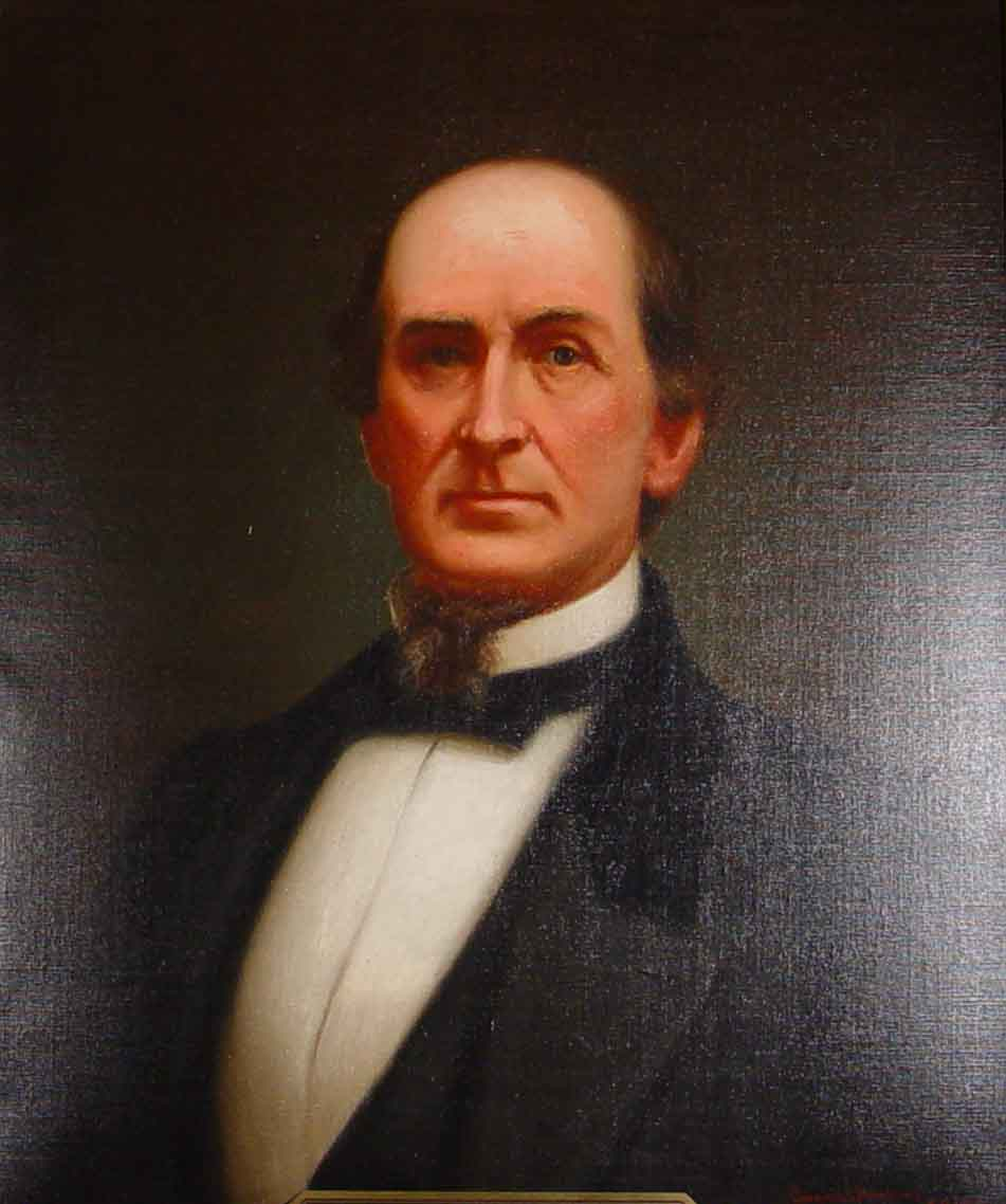 A portrait of Alabama governor Robert Miller Patton.